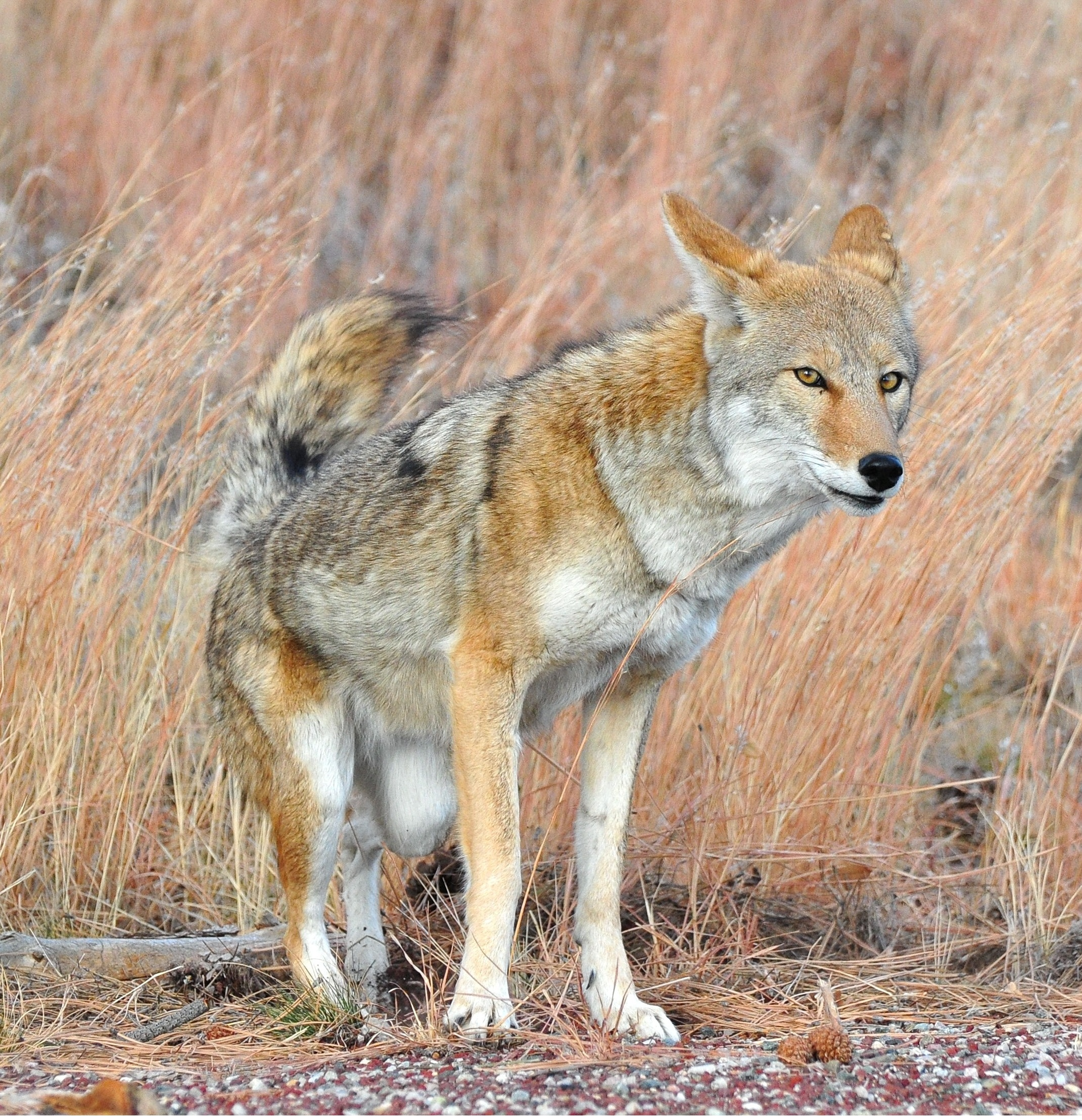 Coyote scent marking, Bandelier, Los Alamos, New Mexico.